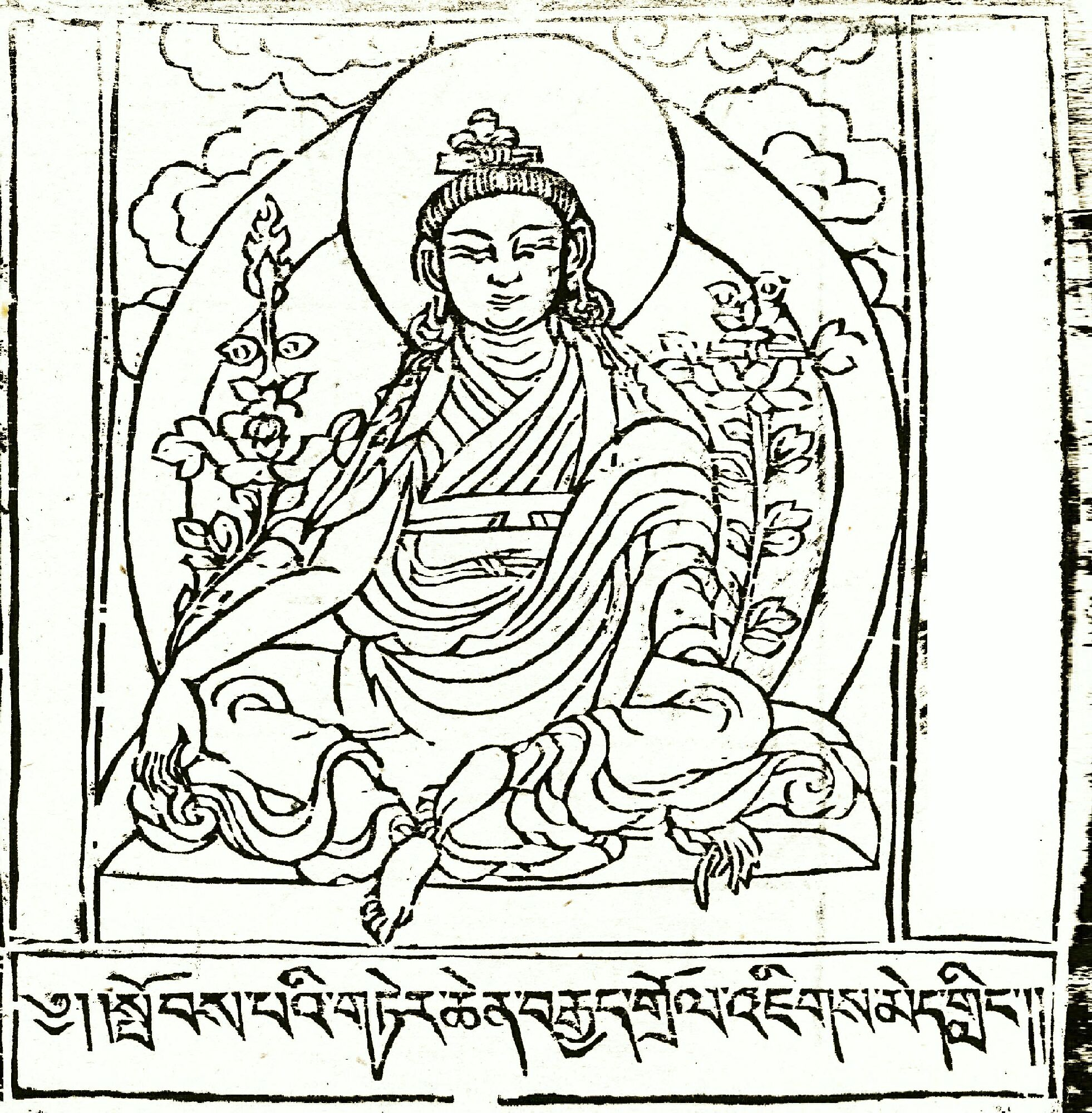 a sketch of jigme lingpa